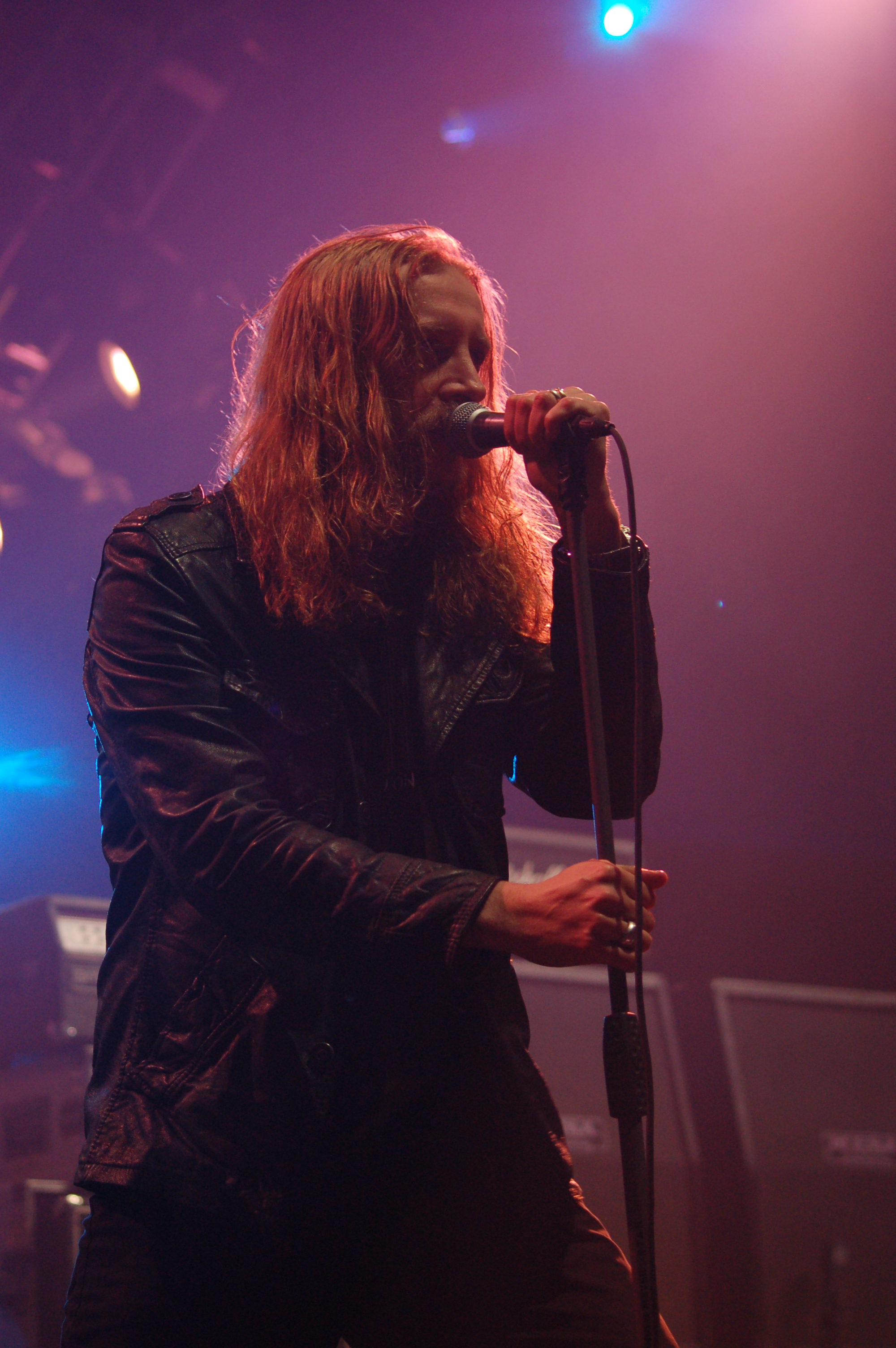 Nick Holmes from Paradise Lost during Metalmania 2007 festival